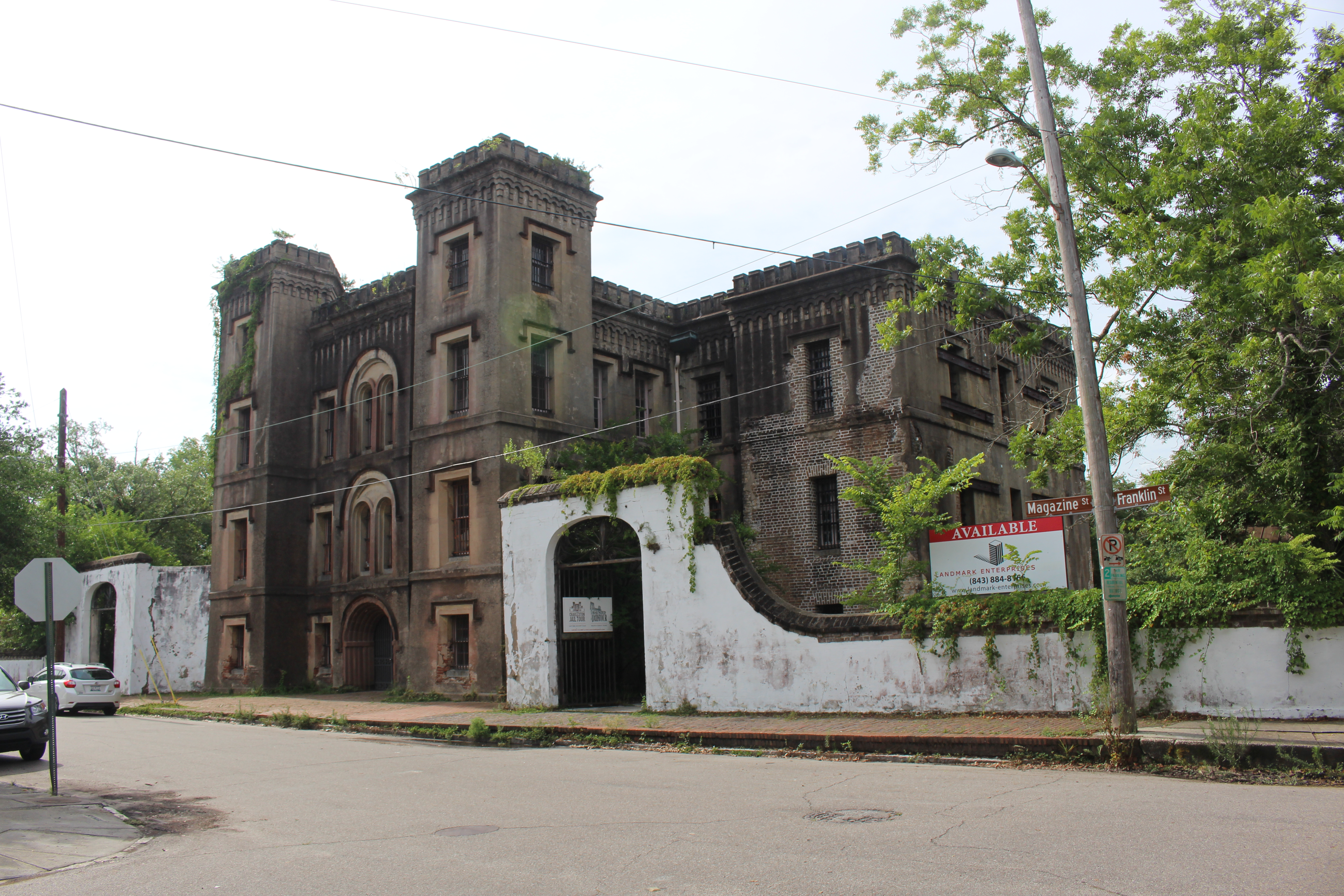 Old Charleston Jail, Charleston, Charleston County, South Carolina